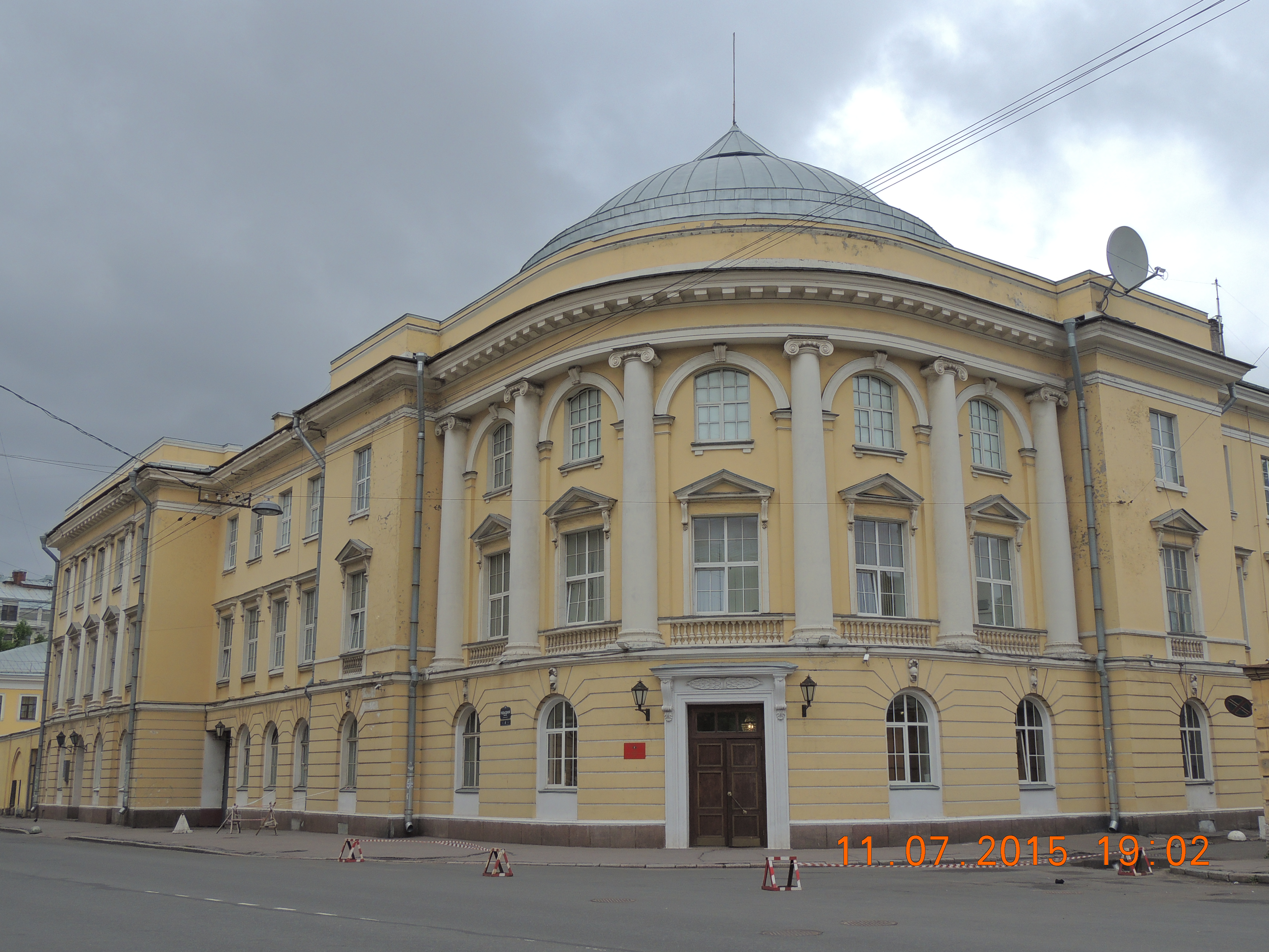 Military Automotive School - Main Building - Manage rear Leningrad Military District 1915-1916